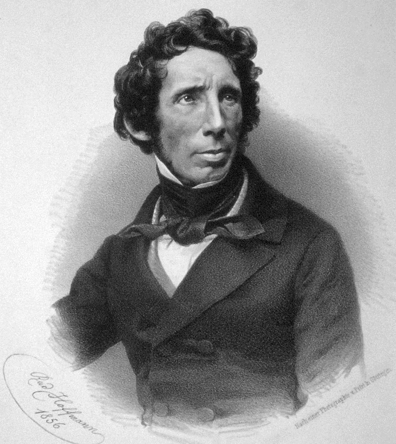 Friedrich Wöhler (1800-1882), German Chemist Lithography by Rudolf Hoffmann, 1856, after a photograph by Petri (Göttingen) From "Gallerie ausgezeichneter Naturforscher" published in Vienna